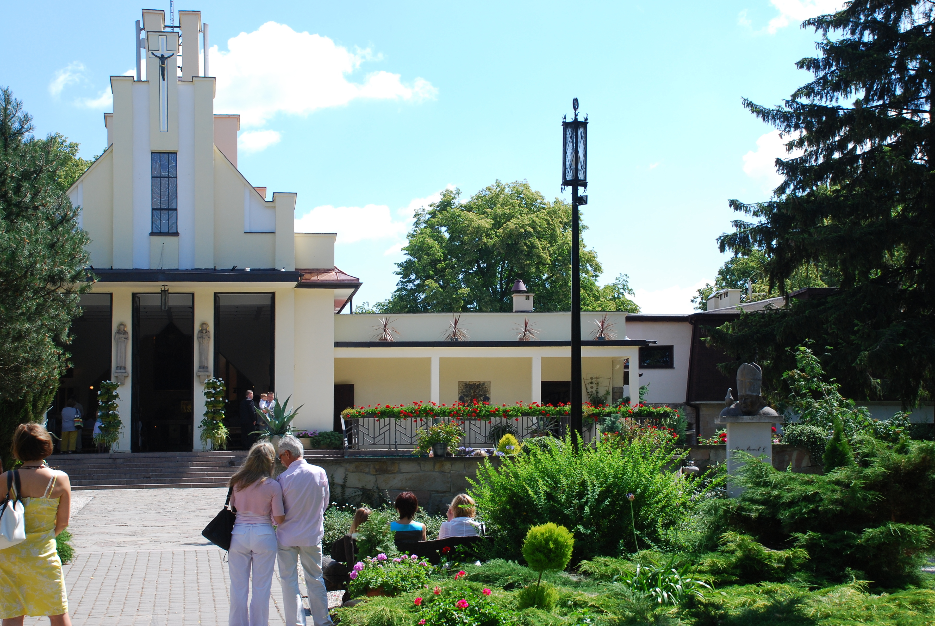 The church in Podkowa Leśna